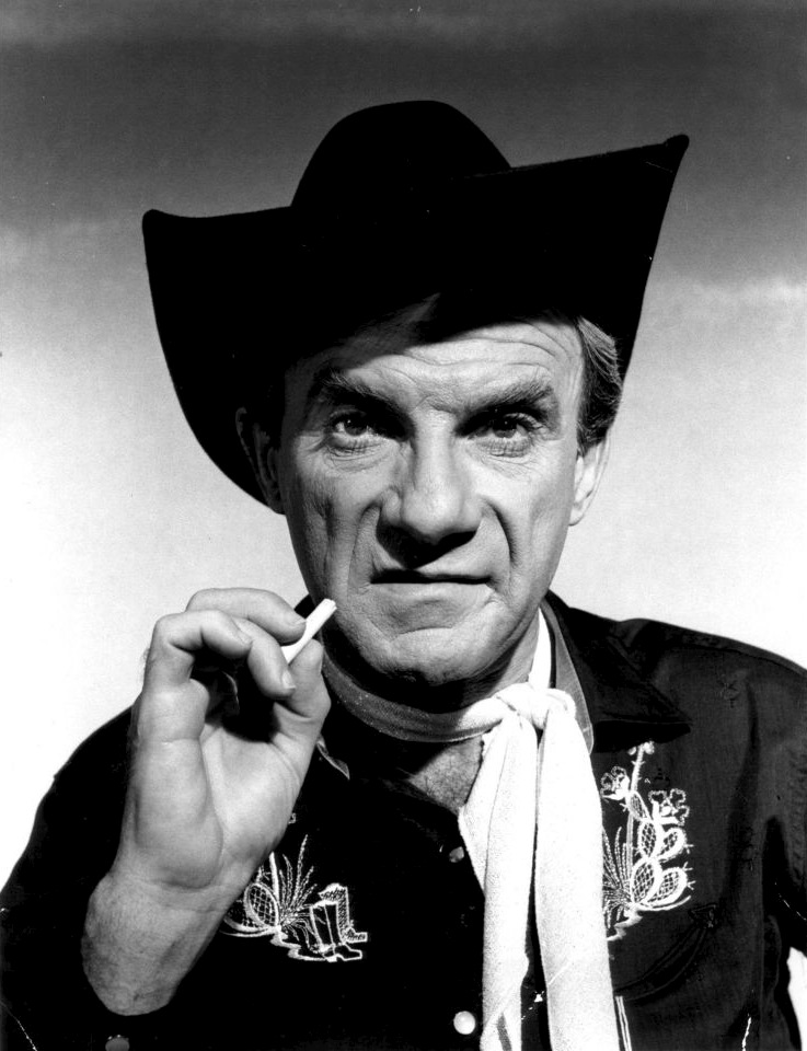 Publicity photo of American character actor, Jonathan Harris promoting his role on the CBS television series Lost in Space.